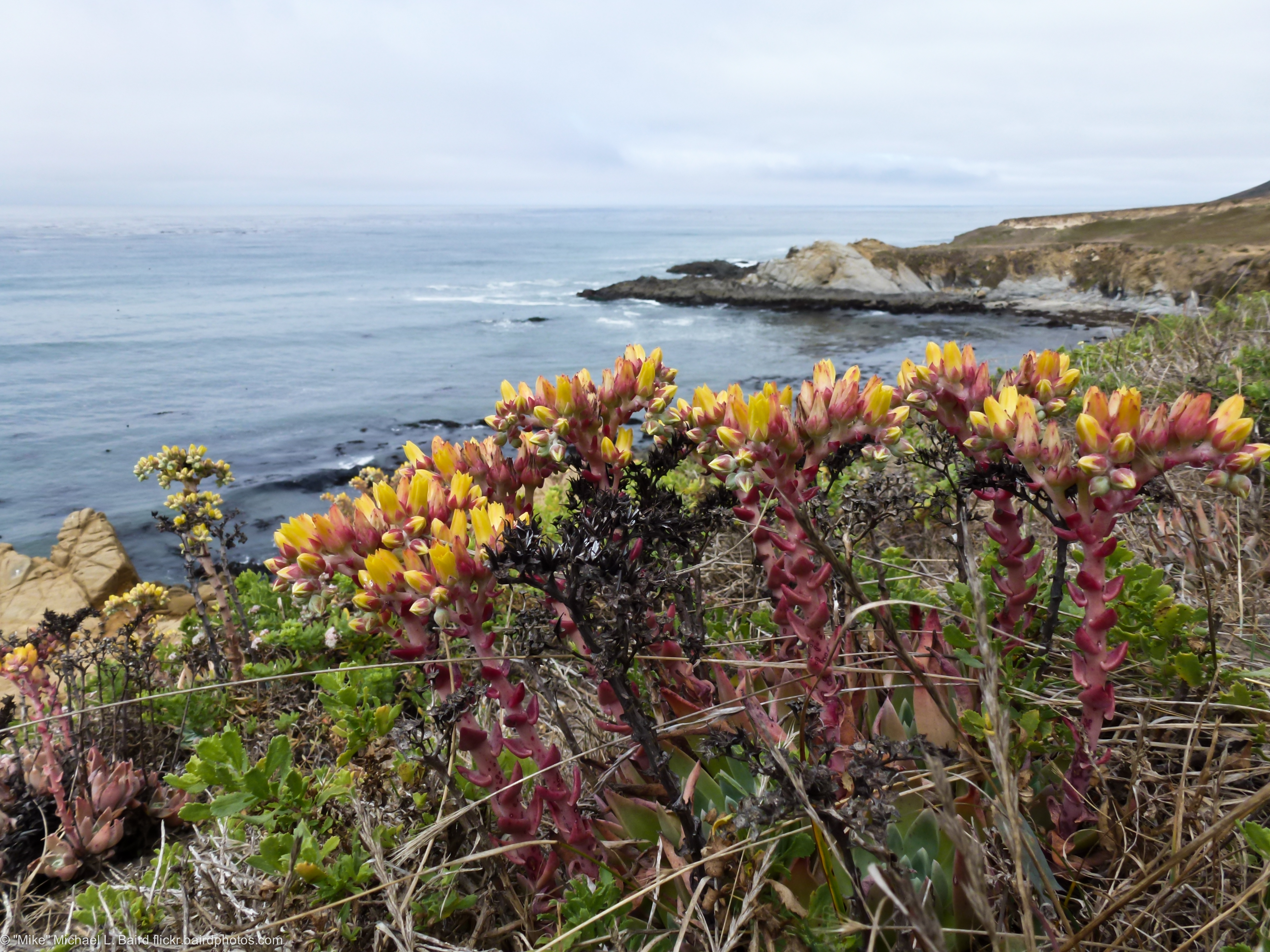 Dudleya caespitosa — Coast dudleya. Blooming in California coastal sage and chaparral habitat, at Harmony Headlands State Park. Located near Hwy 1 in San Luis Obispo County, central California. Dudleya is a genus of succulent perennials, consisting of about 45 species in southwest North America.